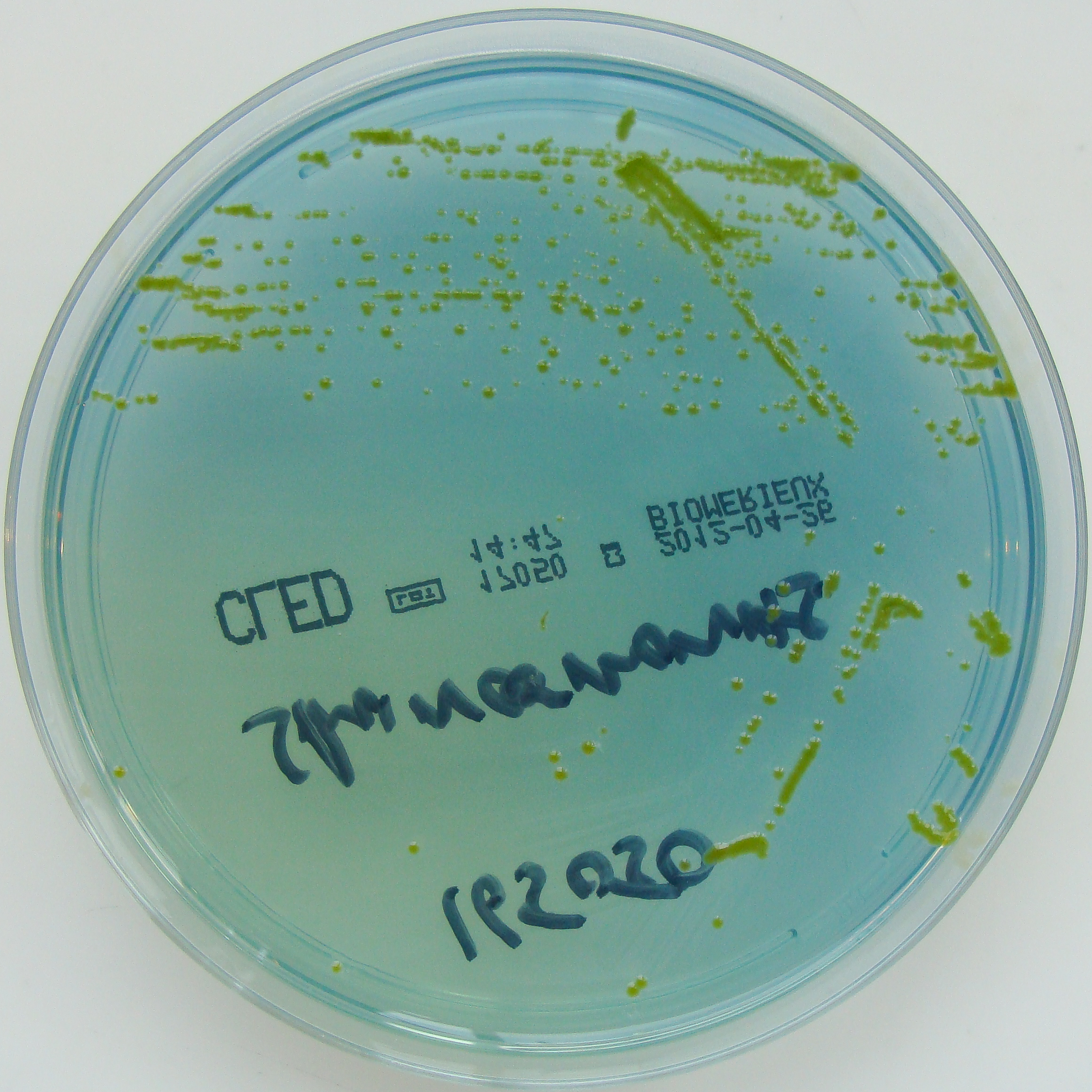 Isolated from a blood culture from a leukaemic patient with pyrexia. Isolate can be found in soil and doesnt usually cause human infection.